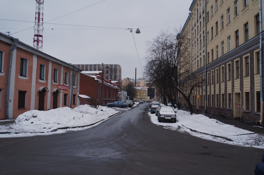 Bobruisk Street (view on the street. Komisar Smyrna)